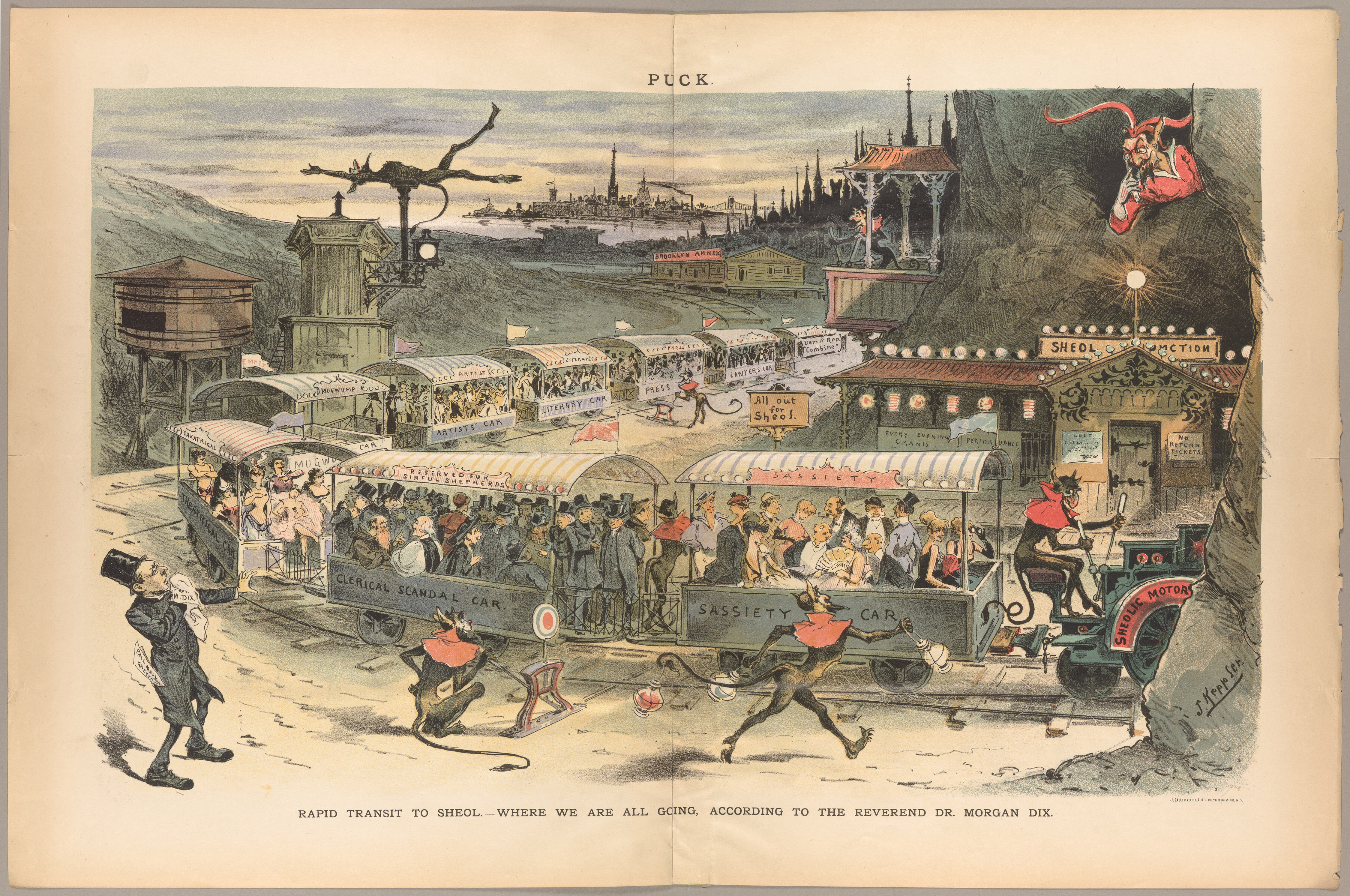 A satirical map of the road to Hell from Puck Magazine in 1888.